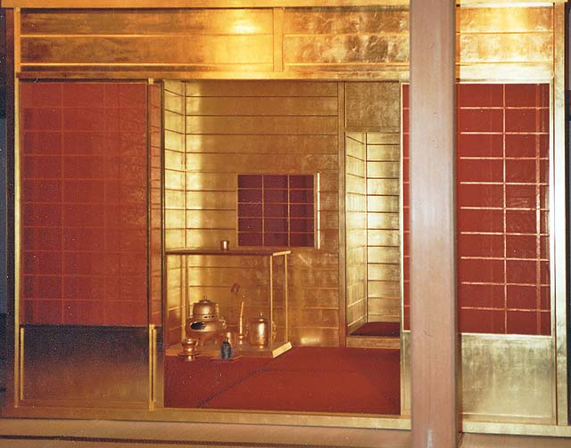 Reconstructed Golden Tea Room in Fushimi Castle, Momoyama, Kyoto.